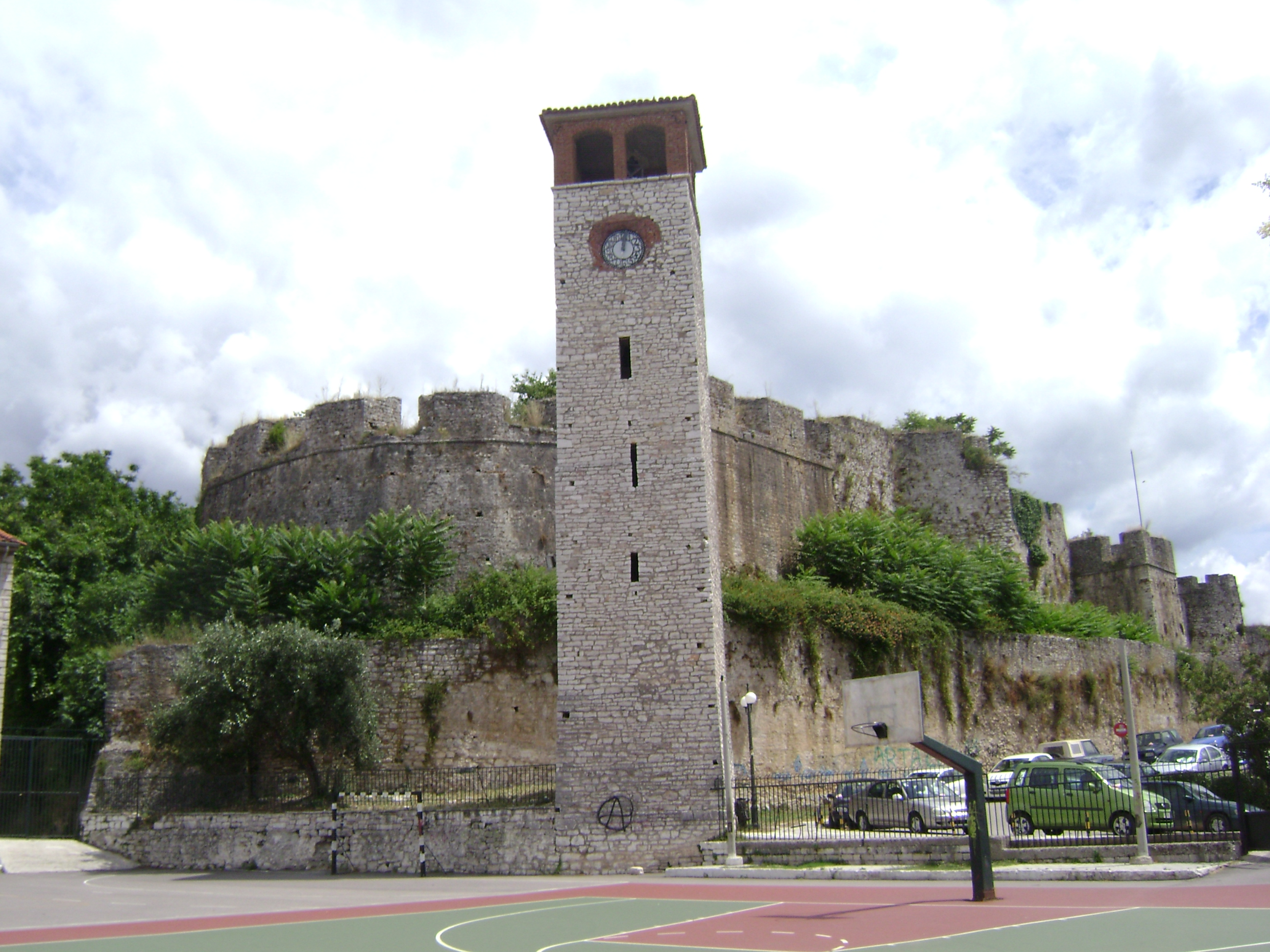 Arta,Greece,Clock Tower